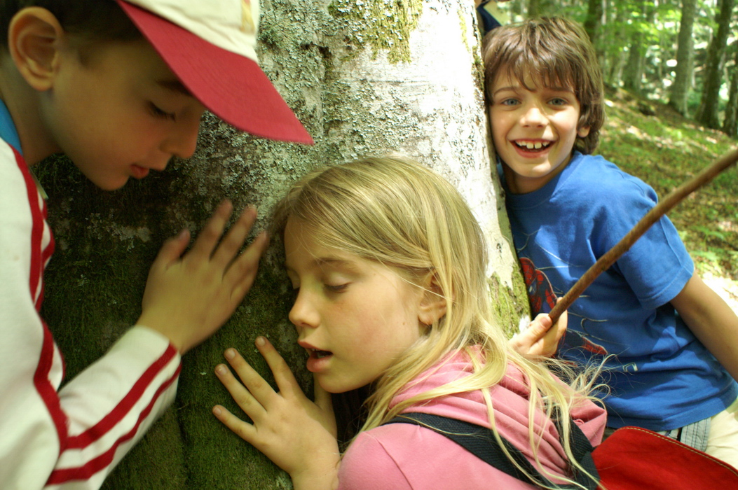 WWF Camp in Tuscany. All the year children live into their cities; for 2 weeks they learn how listen the environment and themselves.